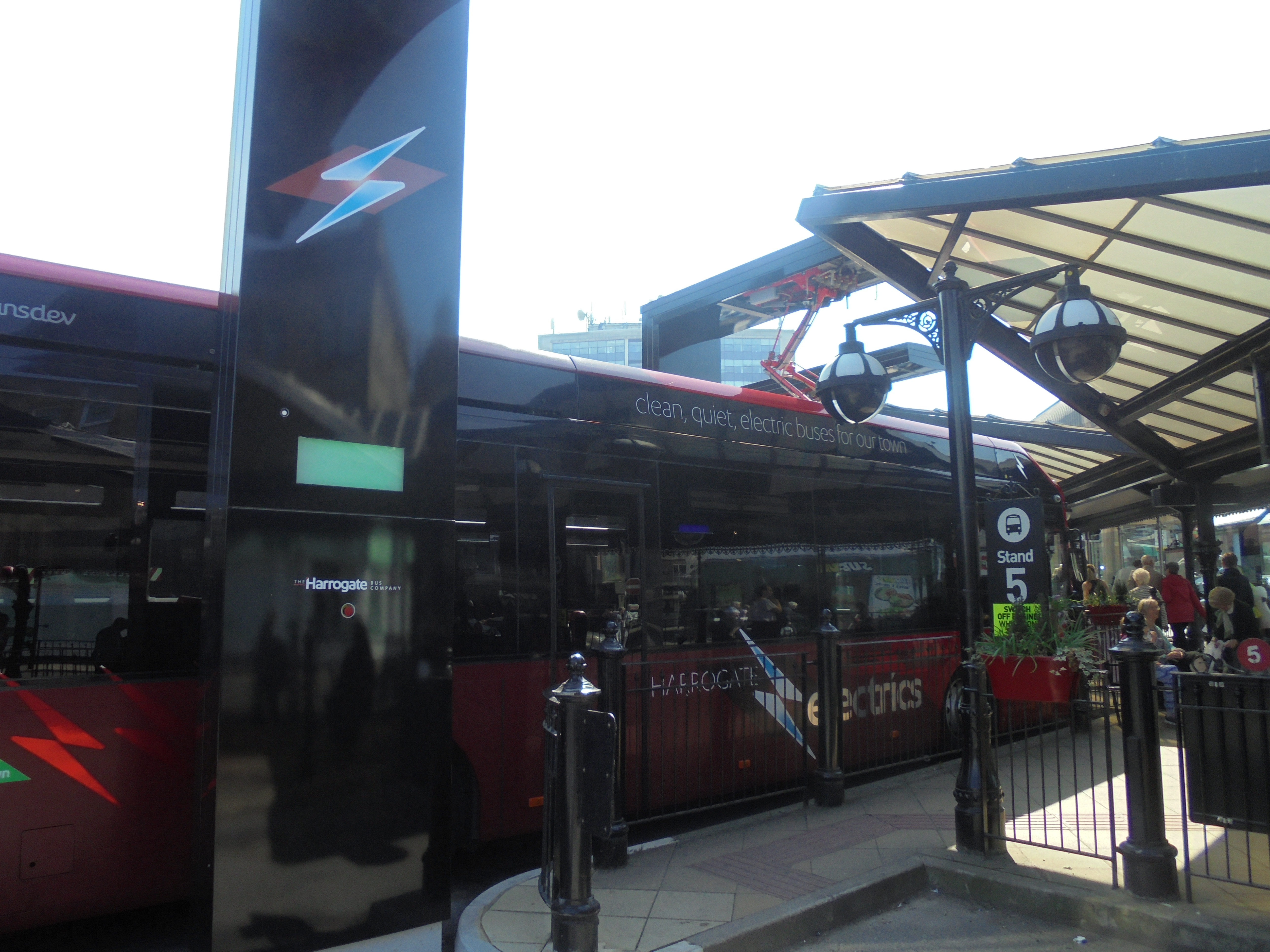 Electric bus on charge at Harrogate bus station, Harrogate, North Yorkshire. Taken on the morning of Good Friday the 19th of April 2019.